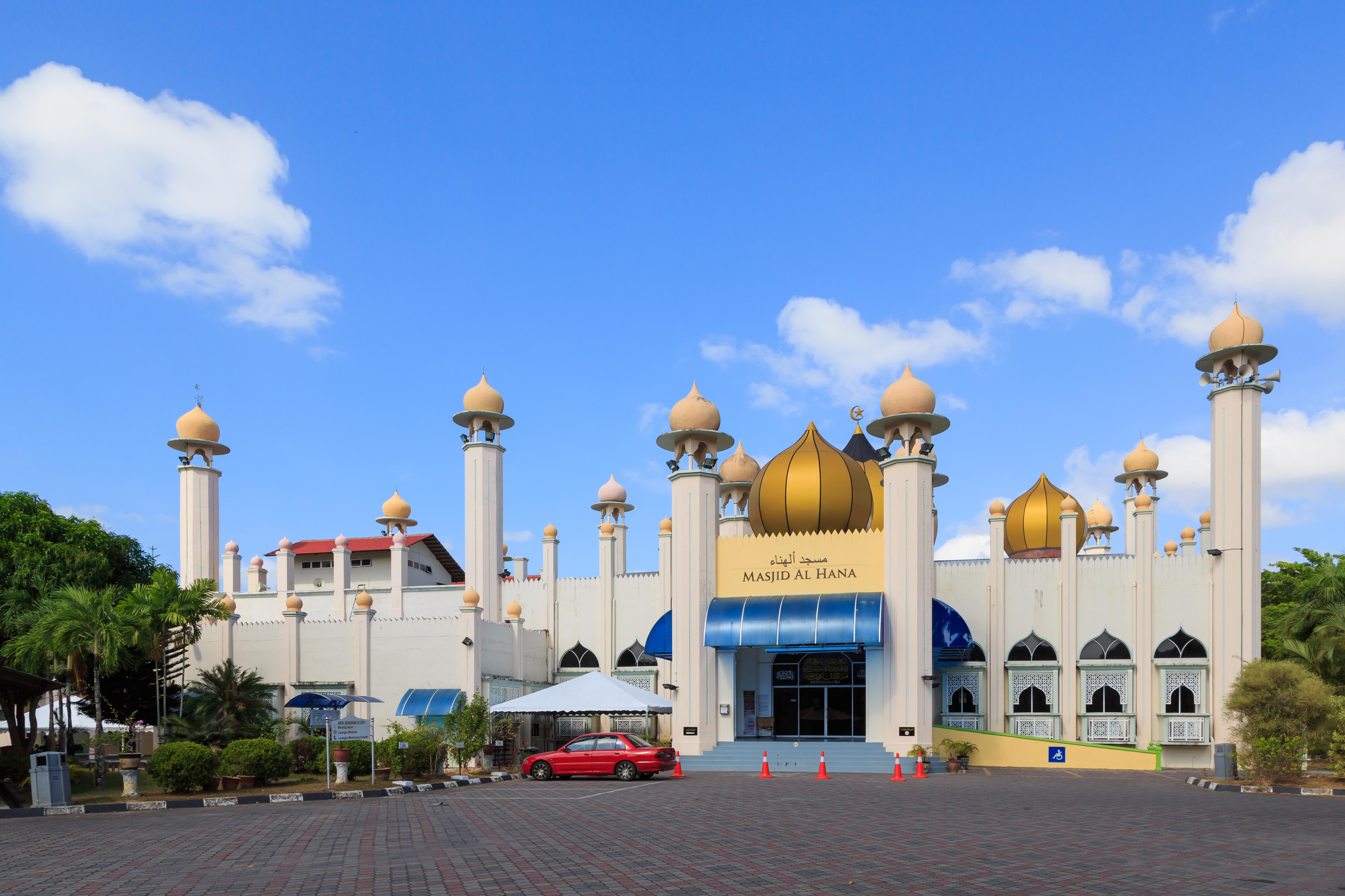 Al Hana Mosque, Kuah, Langkawi, Kedah, MalaysiaBahasa Melayu: Masjid Al Hana, Kuah, Langkawi, Kedah, Malaysia